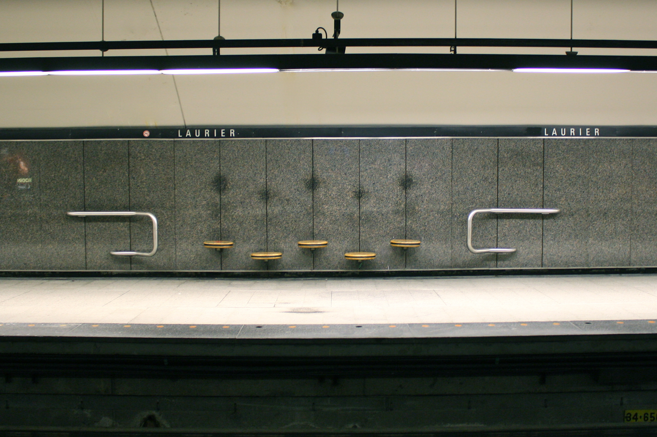 Laurier Metro station platform.